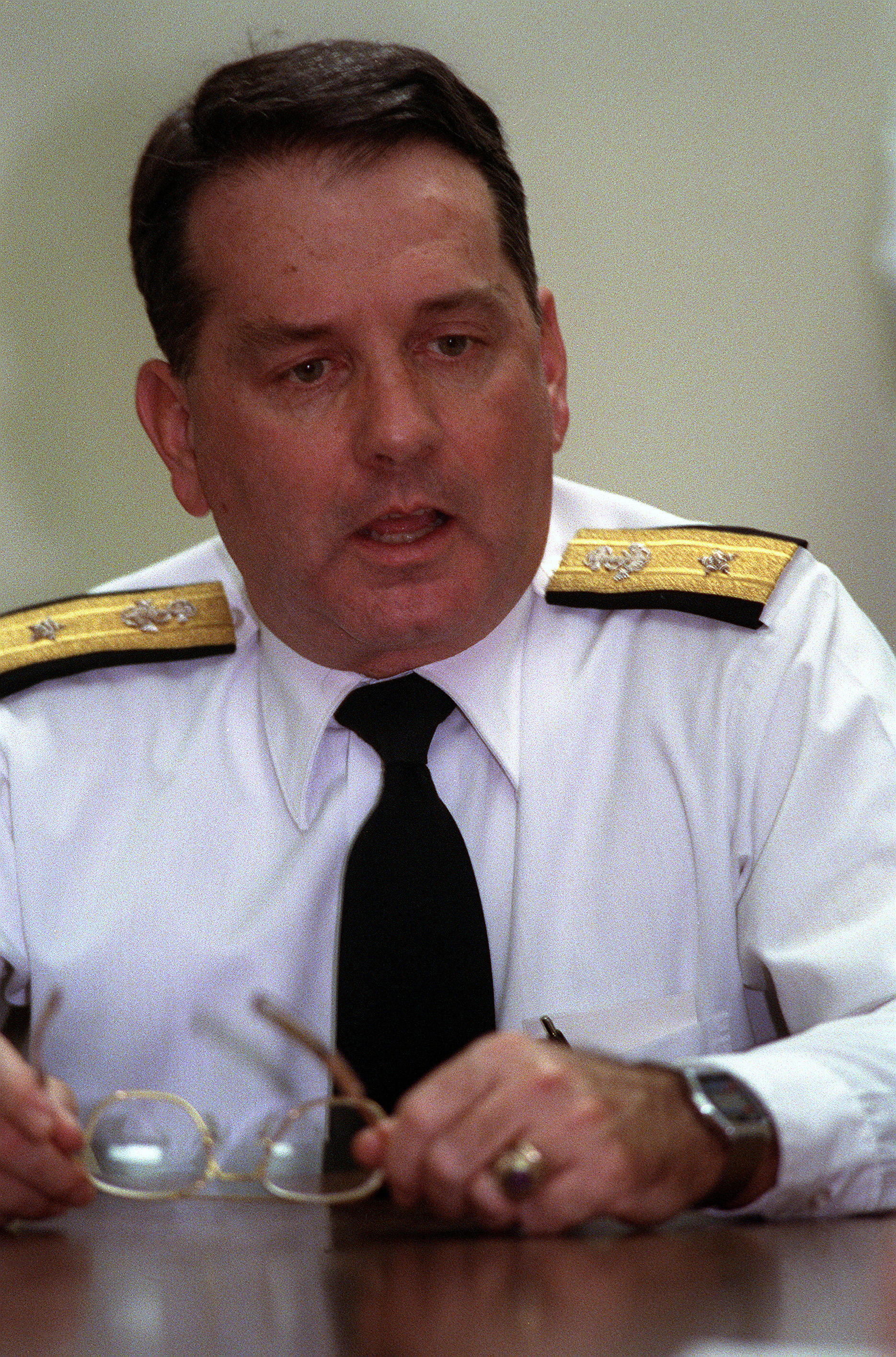 Rear Adm. Brent Baker, chief of information, updates his staff on events regarding Operation Desert Storm during a briefing at the Pentagon.